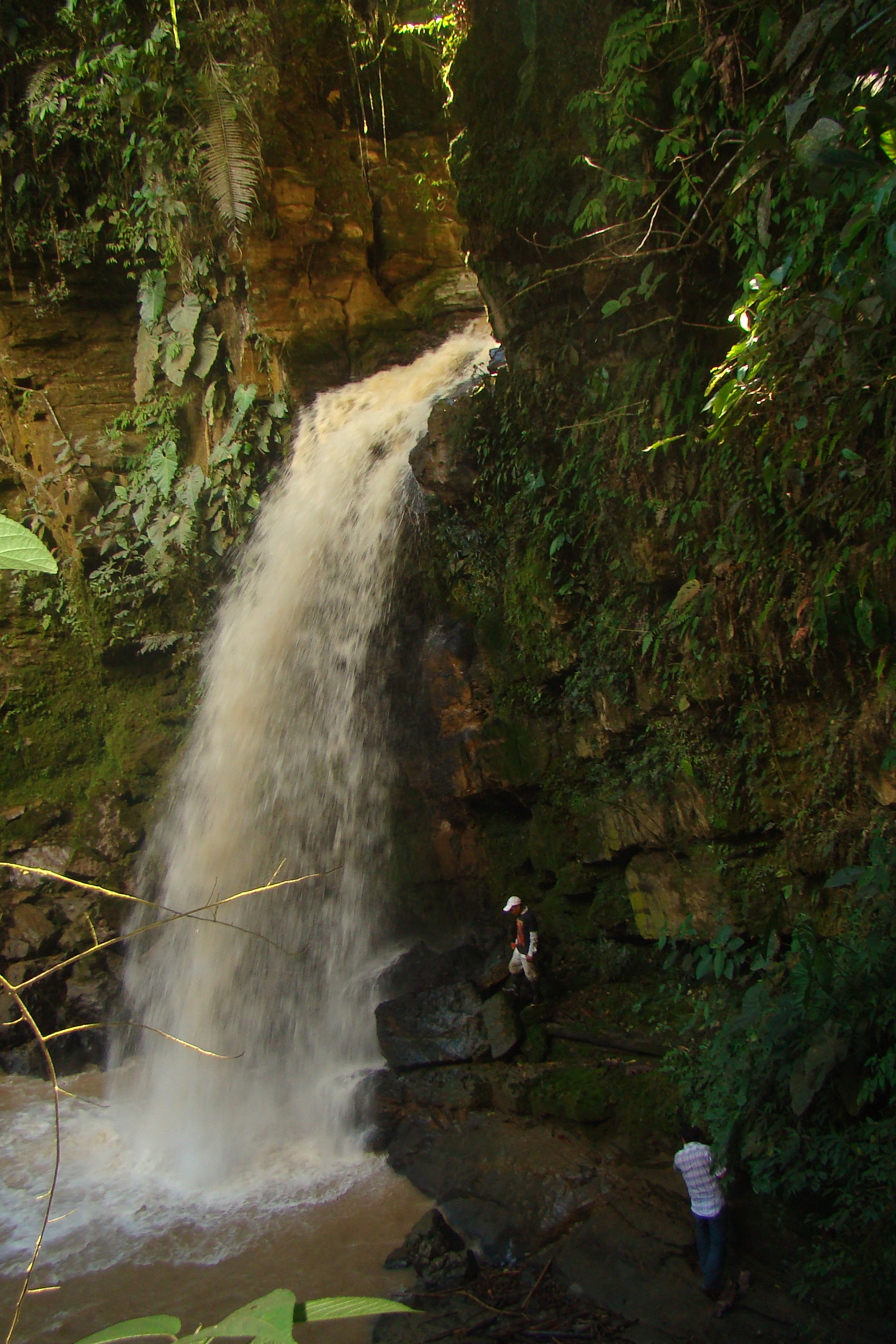 Waterfall near-by Shuar community of Chumpianks in Logroño, Ecuador